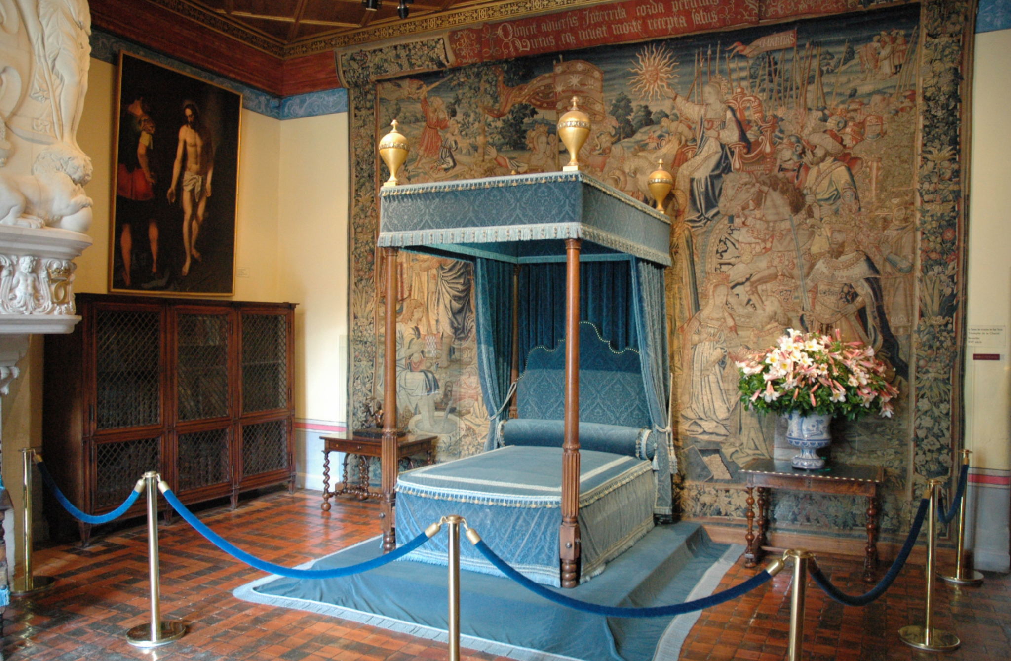 Bed in Diane de Poitiers' room of the château de Chenonceau